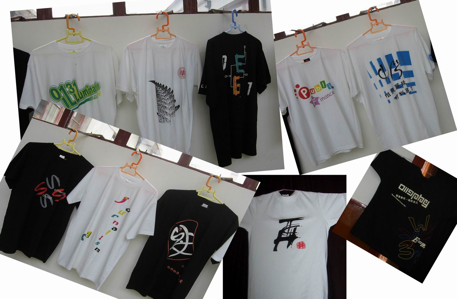 Graduation souvenir t-shirt of Class 2005, Fudan University. Upper row (left to right): the School / Department of Illumination Engineering, Biology, Electronic Engineering, Finance, and Material Science; lower row: software, Journalism, Foreign Language, Chinese Language, and Physics.